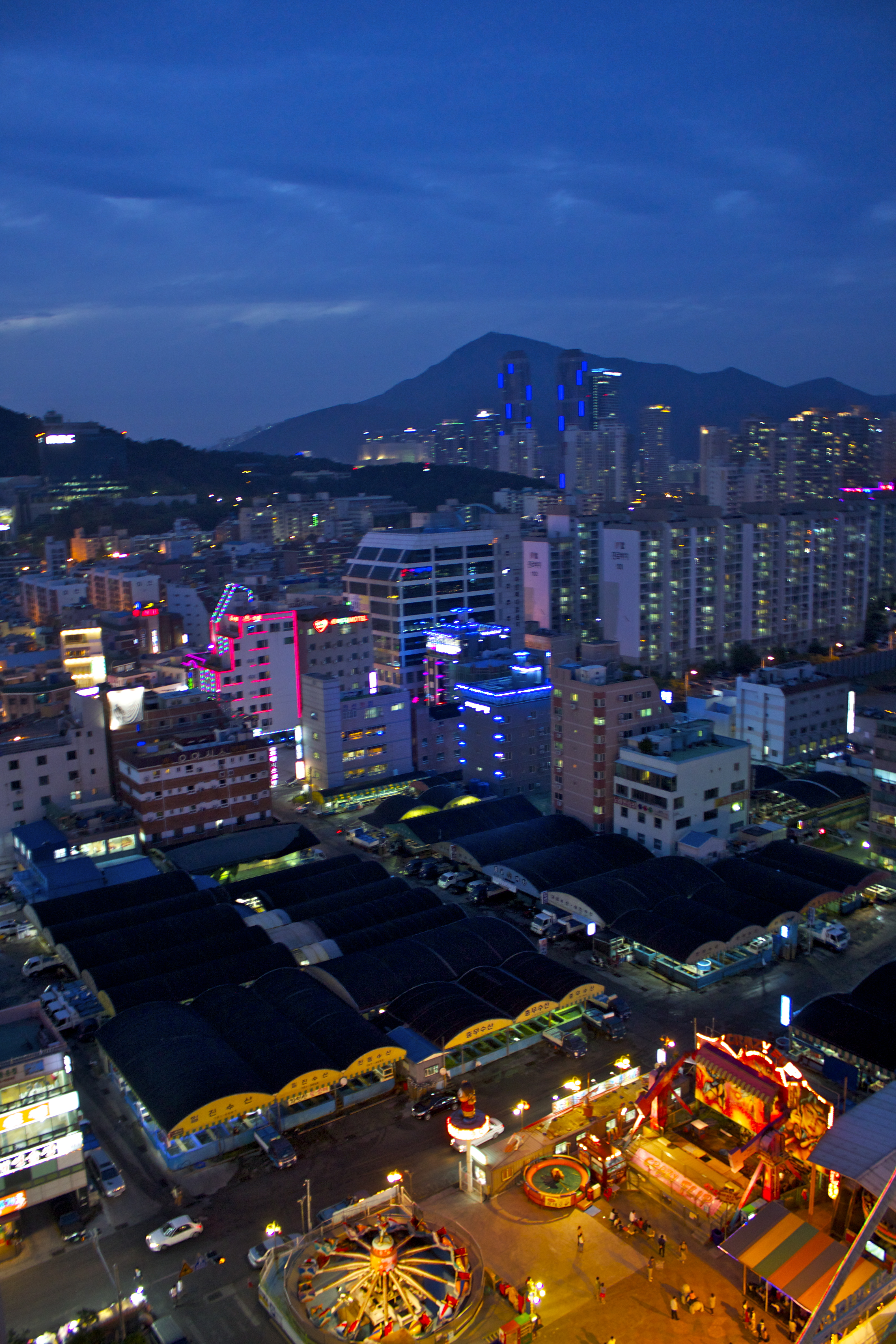 View of Busan at night. Photograph from Flickr; author Chelsea Hicks; license of cc-by-2.0.